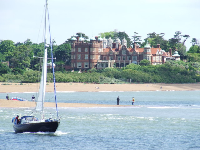 Bawdsey Manor Bawdsey Manor as seen from Felixstowe Ferry Suffolk. Bawdsey Manor built by Sir Cuthbert Quilter between 1886 and 1910, it was purchased by the Air Ministry in 1936 for £24,000 and became RAF Bawdsey and it was here that Robert Watson-Watt and his team of Boffins invented Radar, which was to play such a vital part during the Second World War.